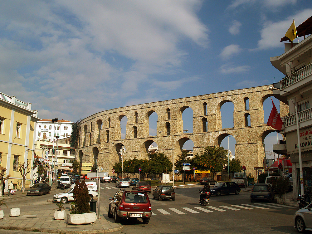 Kavala Aqeduct